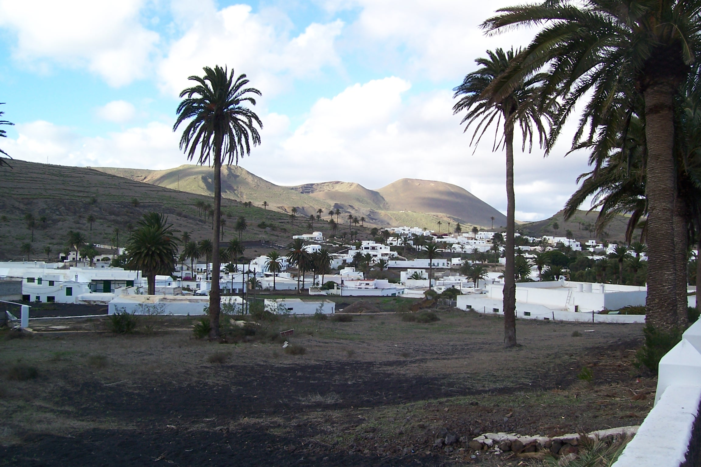 View on Haría